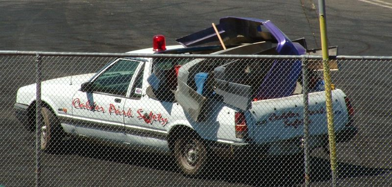 Cleaning up severed bumpers during drift meet. Took photo myself, 11 December 2005, Calder Park, Melbourne, Australia